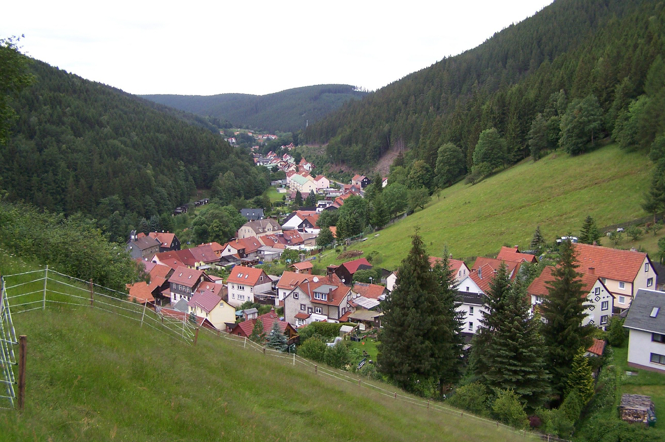 The southern part of Luisenthal village.